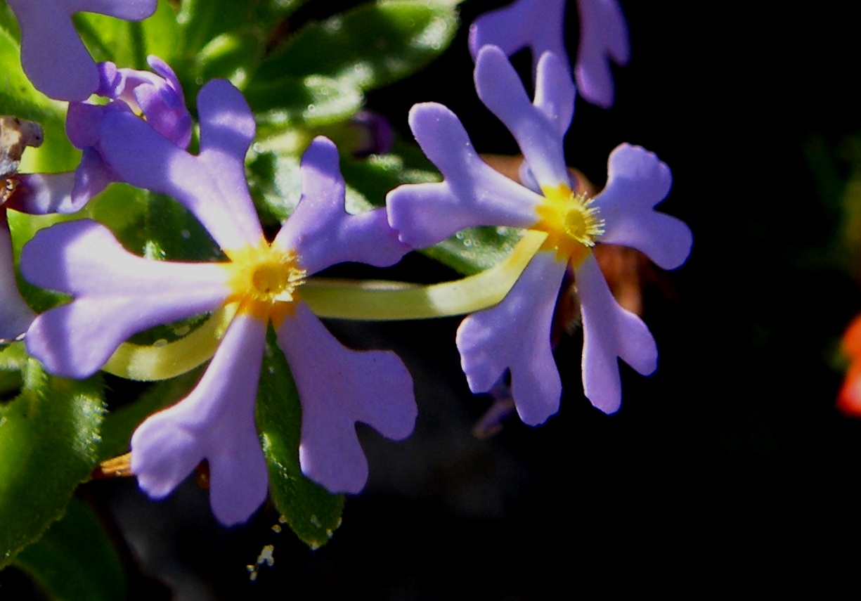 Drumsticks